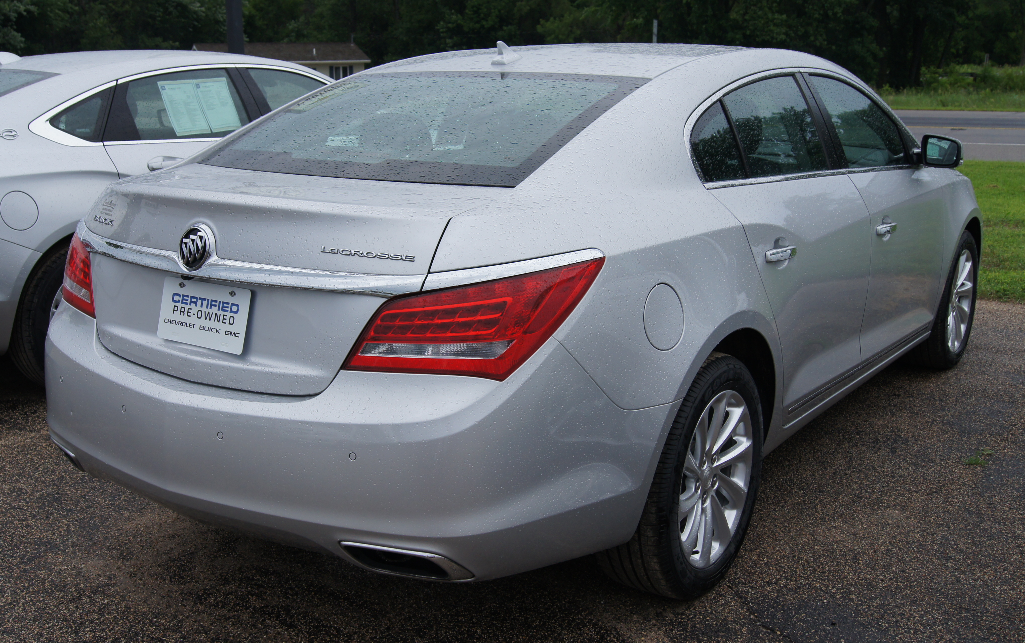 I bought my 2005 Dodge Magnum RT from Walser Chrysler Dodge in Hopkins. It came with free oil changes for life. I used to have relatives near the dealership that I would visit. They have all moved away, so now I just try to coordinate some car spotting for the trip. More Car Pictures